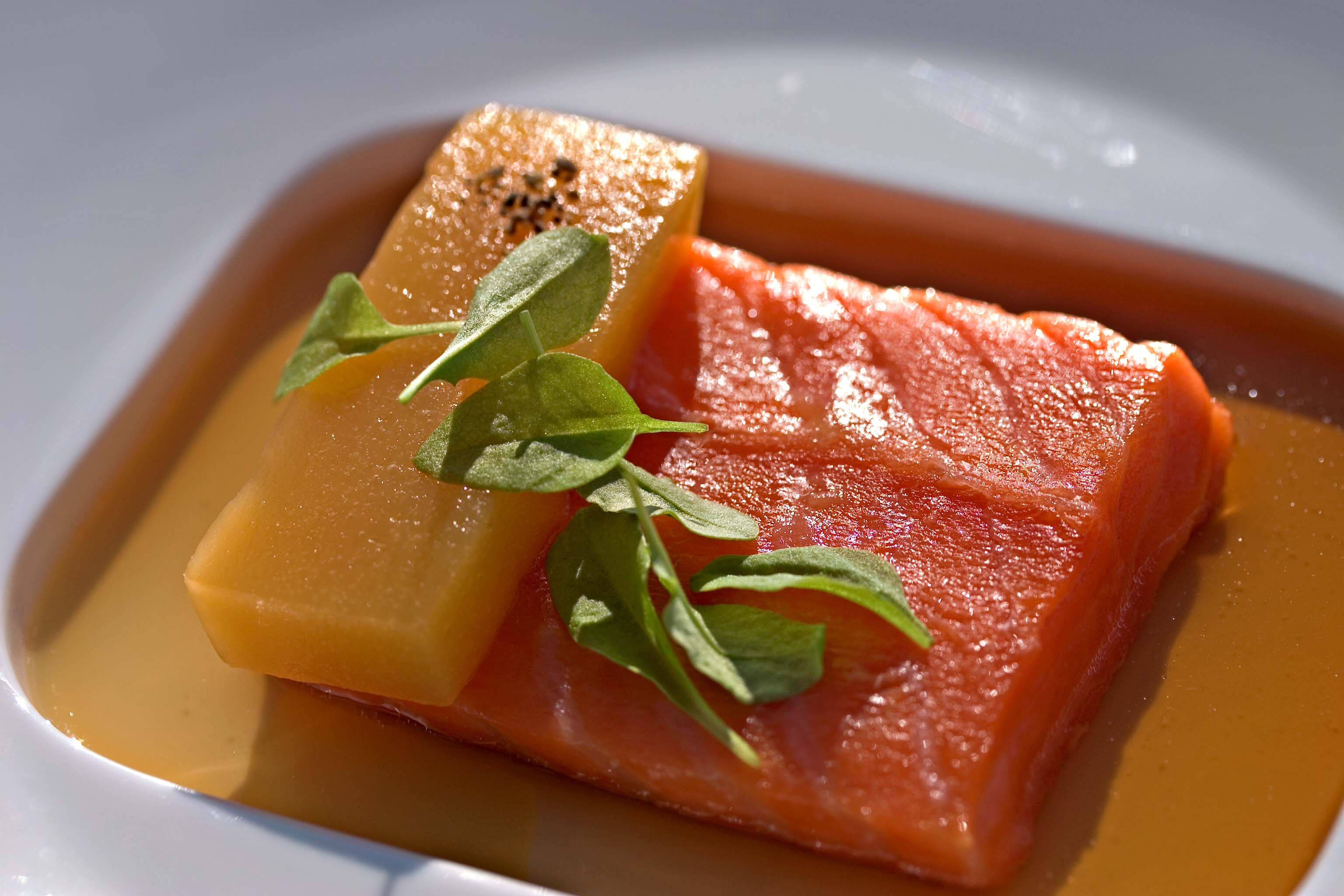 Salmon Peach, Foie Gras Consomme, Sorrel